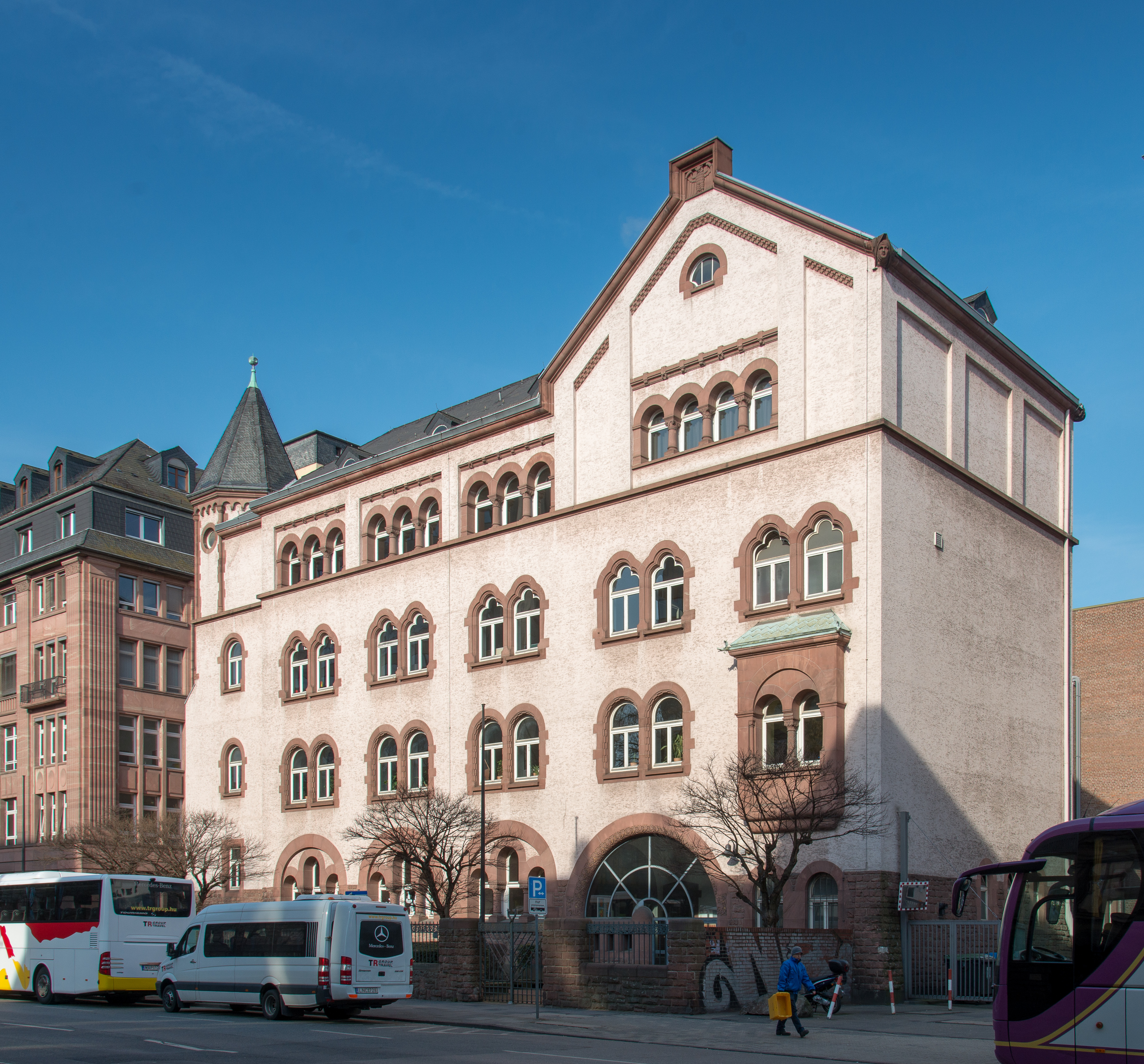 Frankfurt am Main, Gutleutstraße 38 (August Henze school). Cultural monument of the city